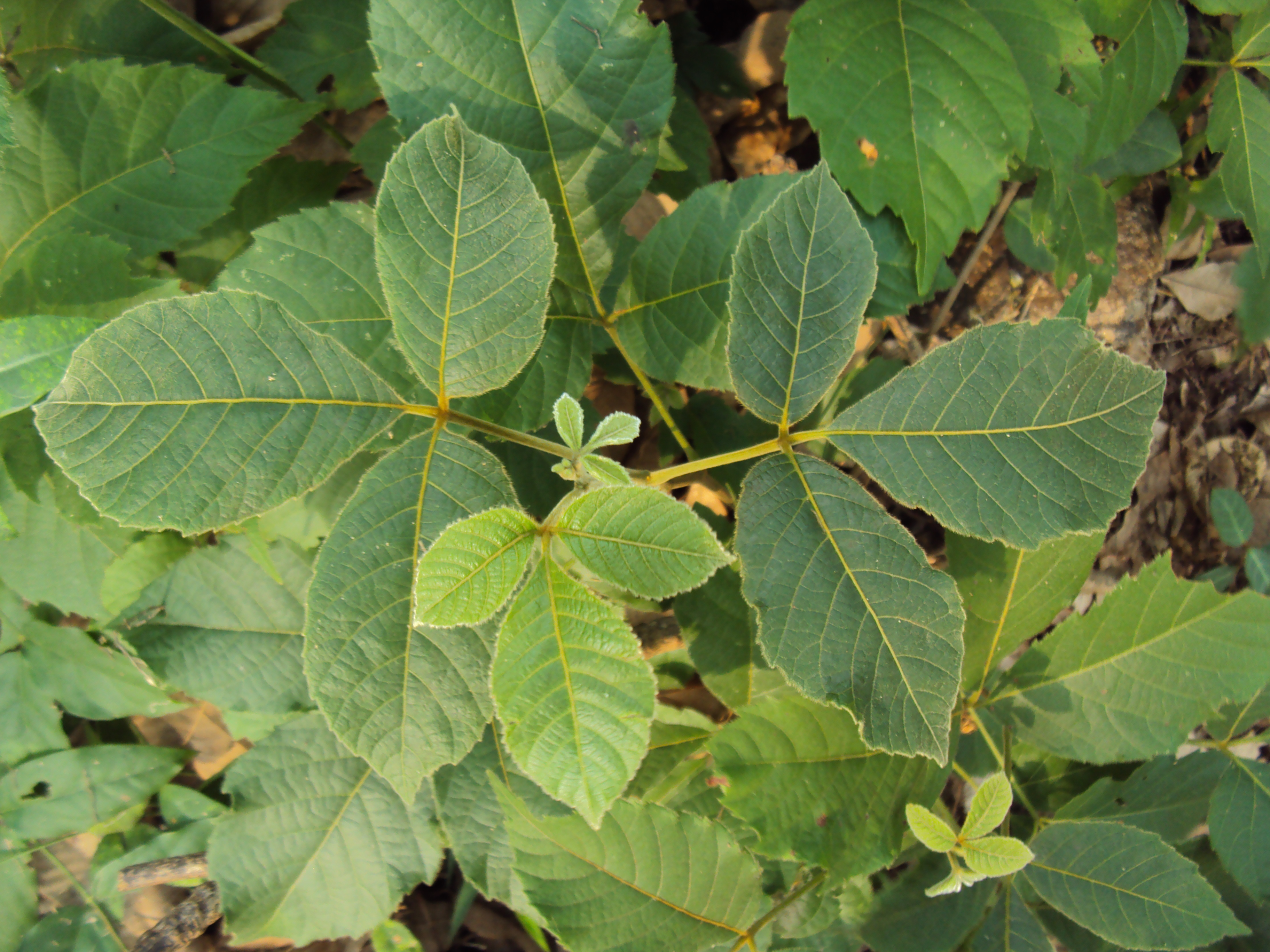 Allophylus serratus